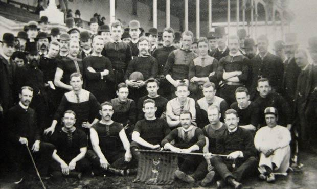 Photo of the 1886 Adelaide Football Club from their only premiership season.